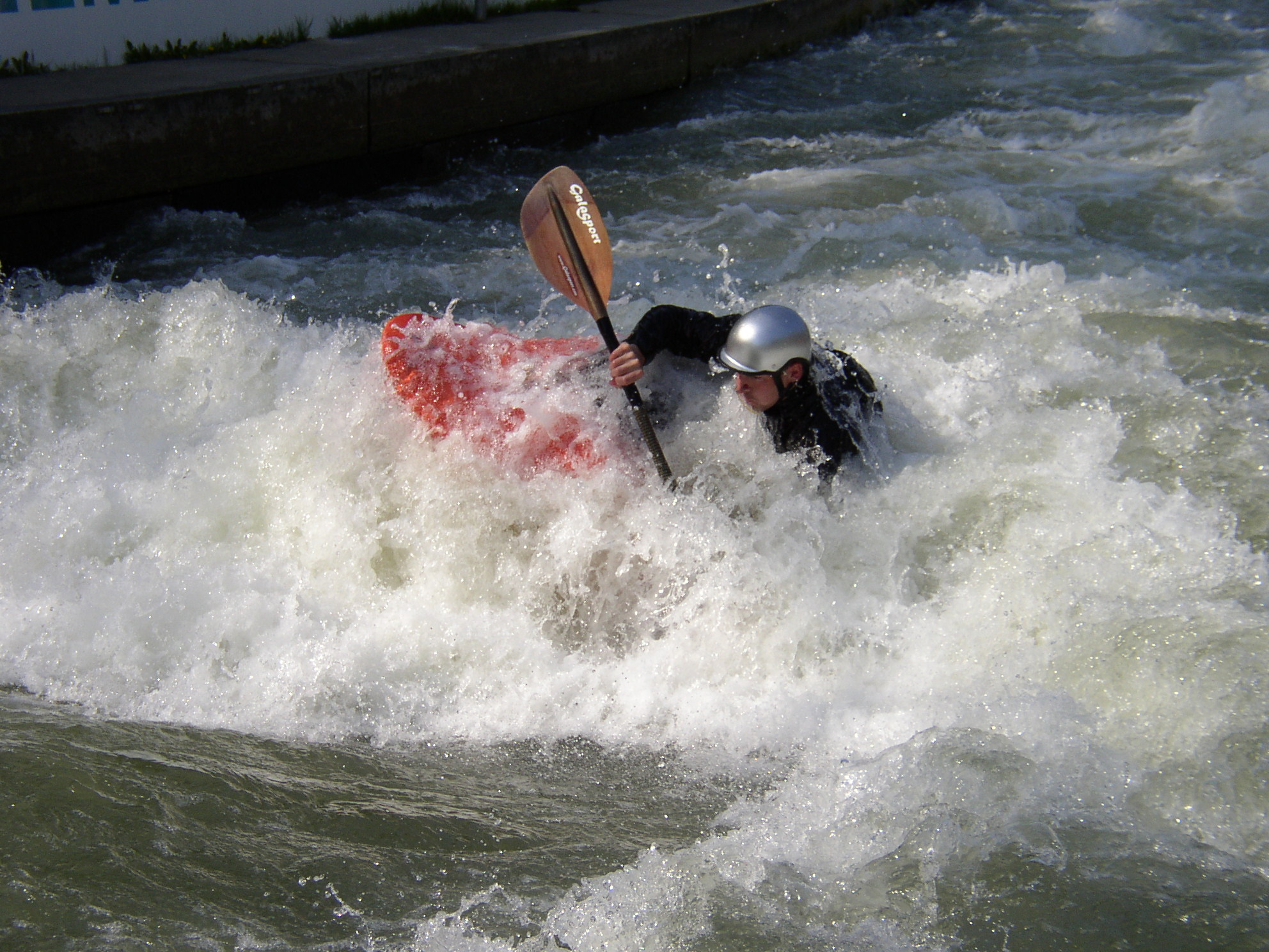 Eurocup Playboating, Eiskanal in Augsburg, Germany